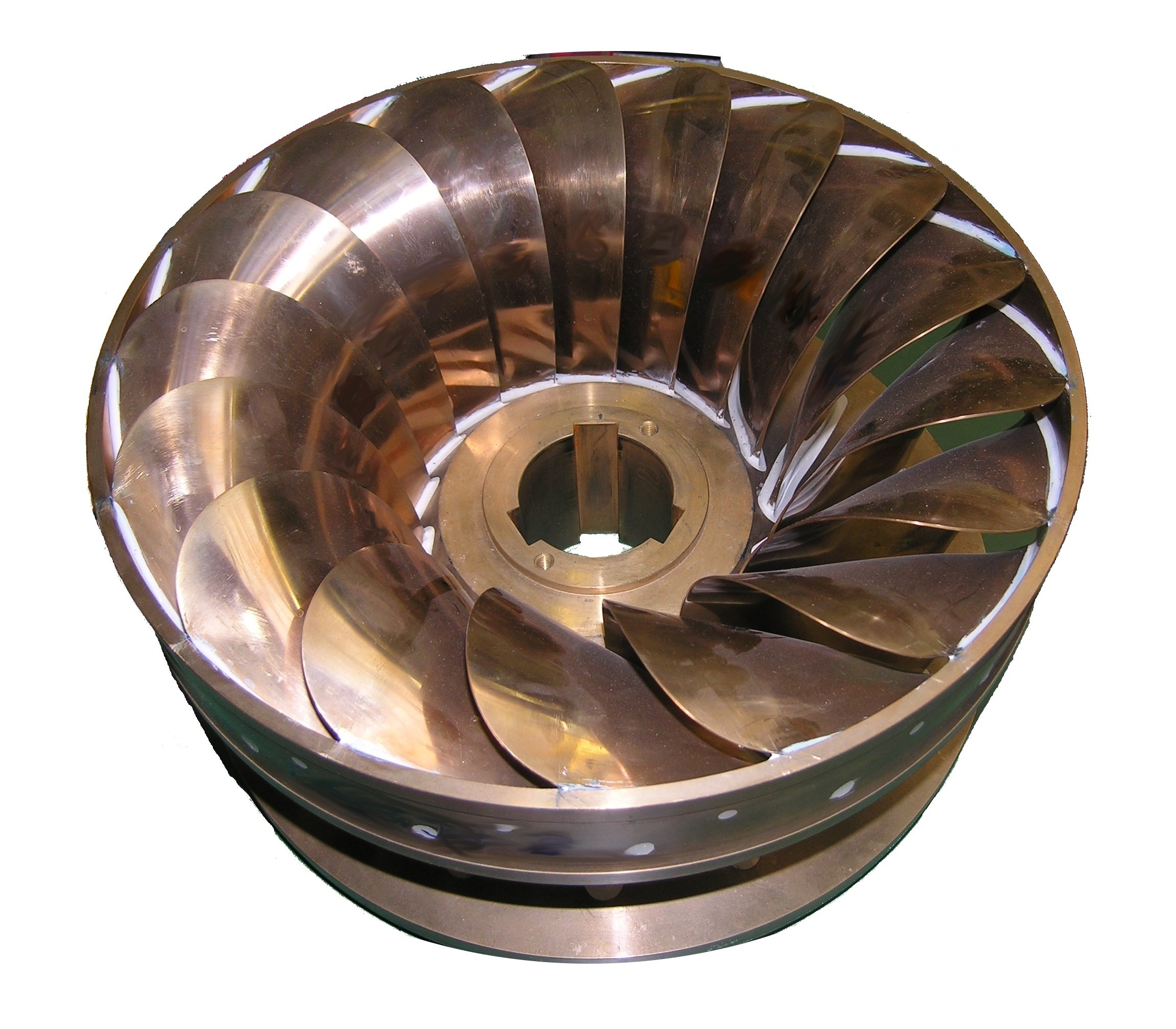 The rotor of the water turbine. Taken in the plant that manufactures the water turbines, Zurich.